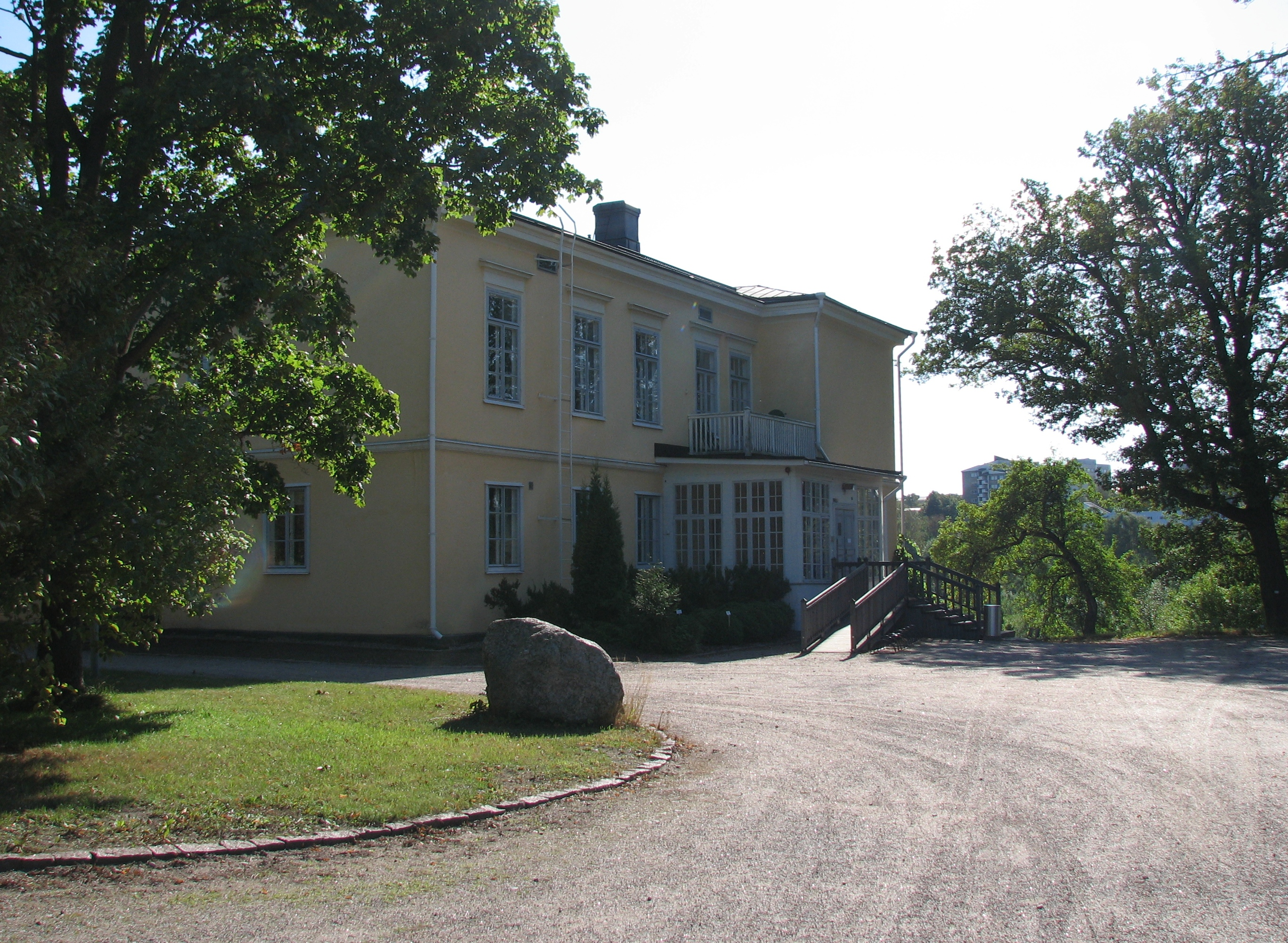 The administrative office building of the Faculty of Sciences of the University of Helsinki. The building is located in the Kumpula botanical gardens a short walk away from the Kumpula campus.